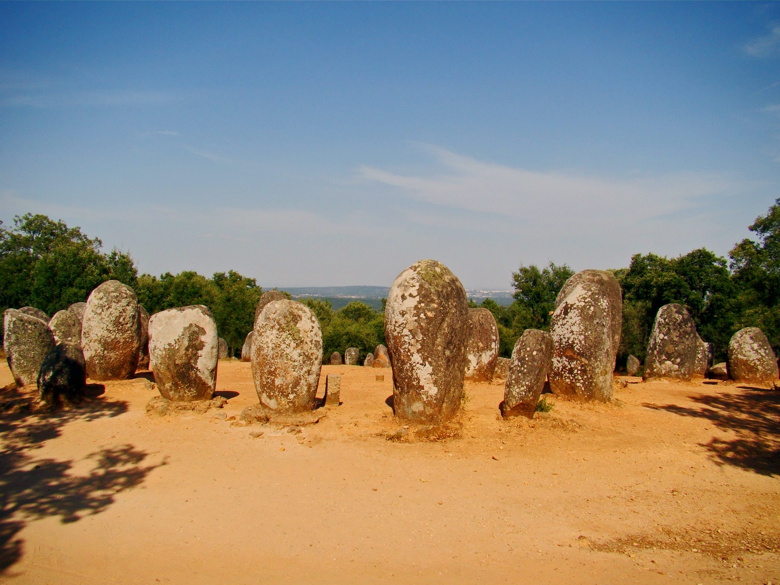 This file was uploaded for Wiki Loves Monuments in Portugal with the unique identifier 74646.